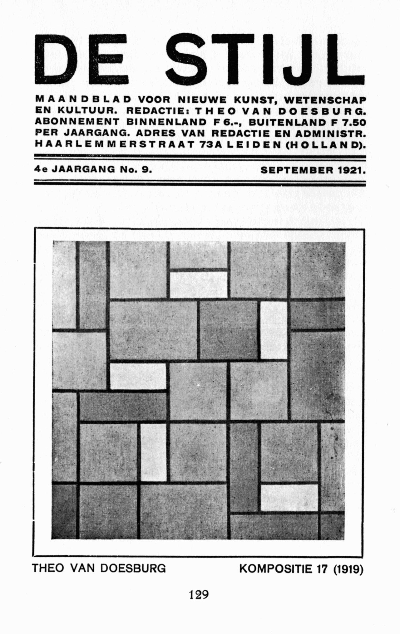 Vignette of De Stijl, september 1921.